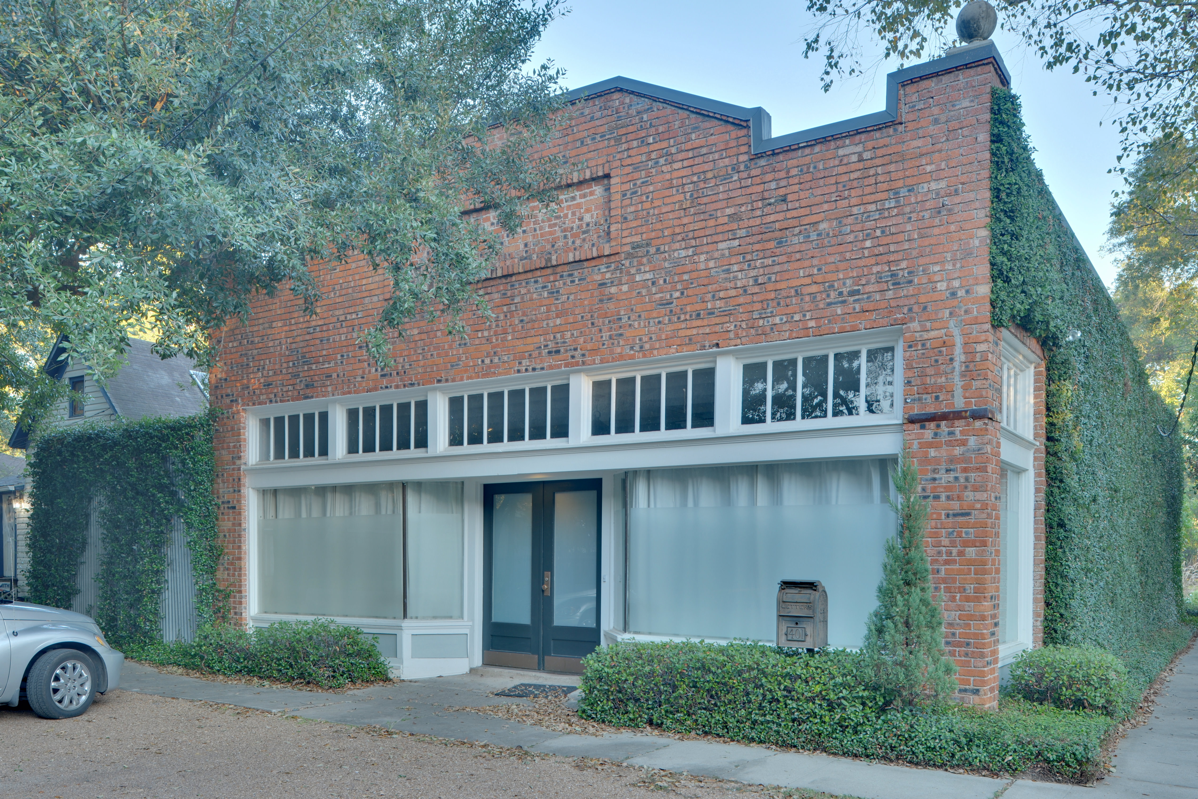 Morton Brothers Grocery, at 401 West 9th St., Houston (Texas, USA) is listed in the National Register of Historic Places, United States Department of the Interior.